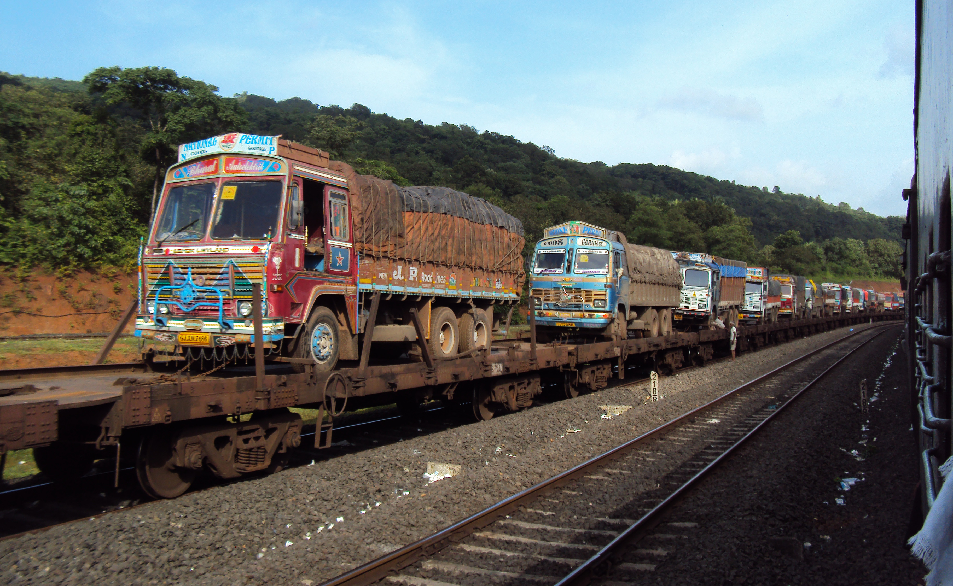 Konkan - Western Ghats - Scenes from India's Konkan Railway